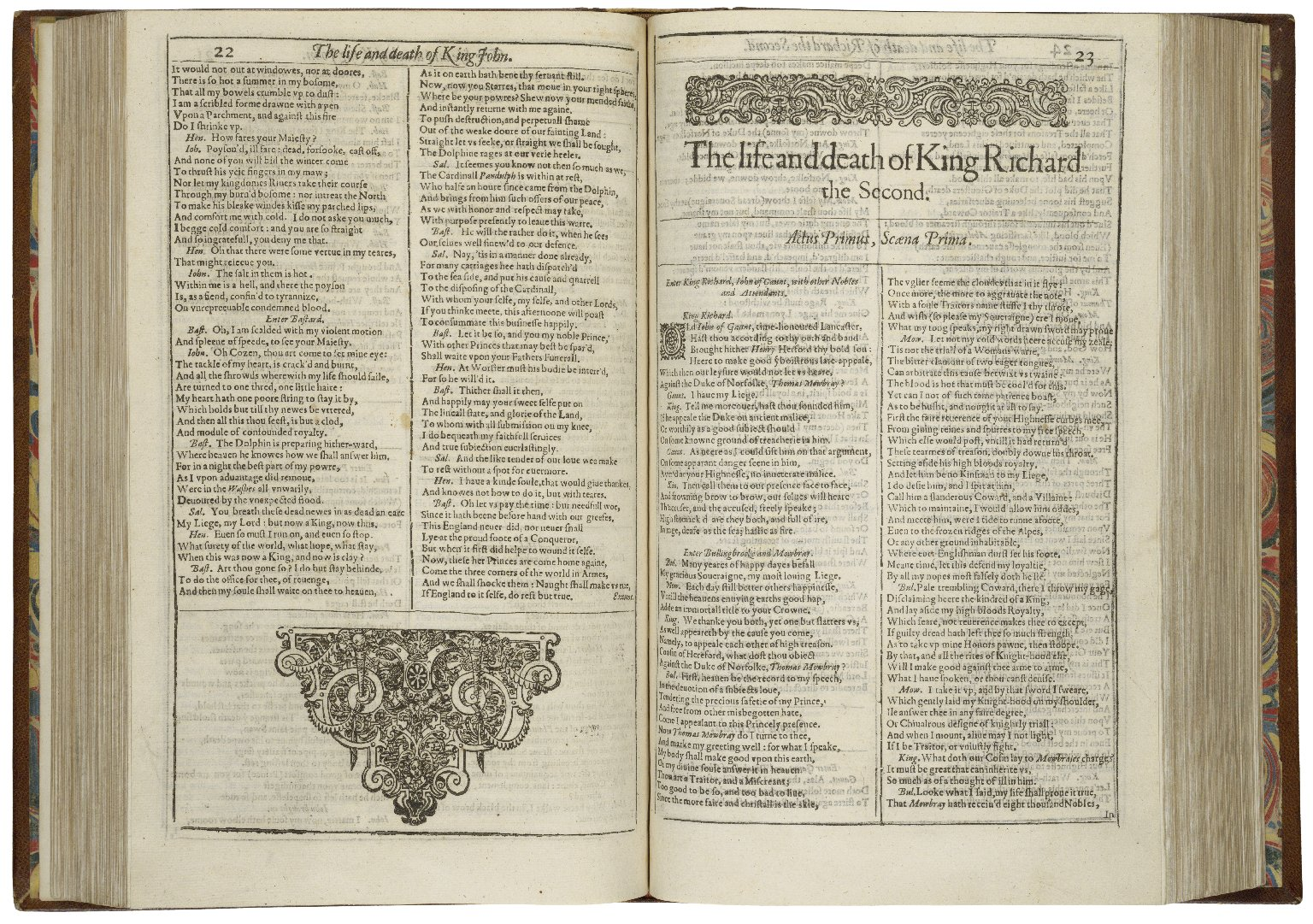 The first page of Shakespeare's Richard II, printed in the First Folio of 1623